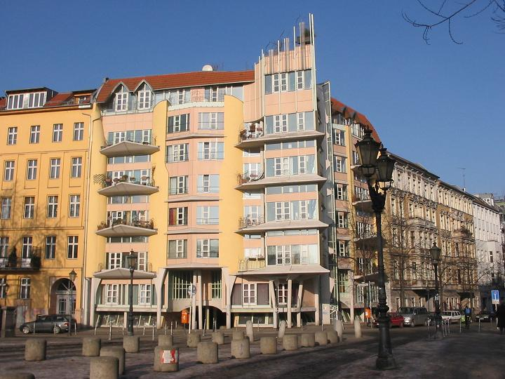 Residential buildings at Landwehrkanal in Berlin-Kreuzberg. Fraenkelufer/Corner Admiralstraße.